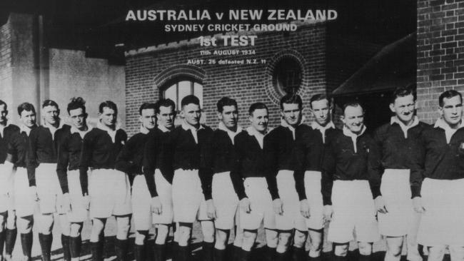 Wallabies Aust RU 1934 The Wallaby victory in the 1st Test v NZ 11 Aug 1934 enabled Australia to win the Bledisloe Cup for the 1st time from the All Blacks. Team comprises (though not in order): Alex Ross, Doug McLean, Jnr., Cyril Towers, Dooney Hayes, Jack Kelaher, Wally Lewis, Syd Malcolm, Ted Jessep, Edward Bonis, Vincent Bermingham, Bill White, Weary Dunlop, Owen Bridle, Walter Mackney, Aub Hodgson. Ross is at far right, Malcolm 3rd from right, Towers is sixth from left. E.S. "Dooney" Hayes, fifth from the right. Died in WWII. Sir Edward "Weary" Dunlop is best known for his courageous and compassionate leadership of approximately one thousand Australian troops held as prisoners of war by Japanese on the Thai-Burma railway during WW2.